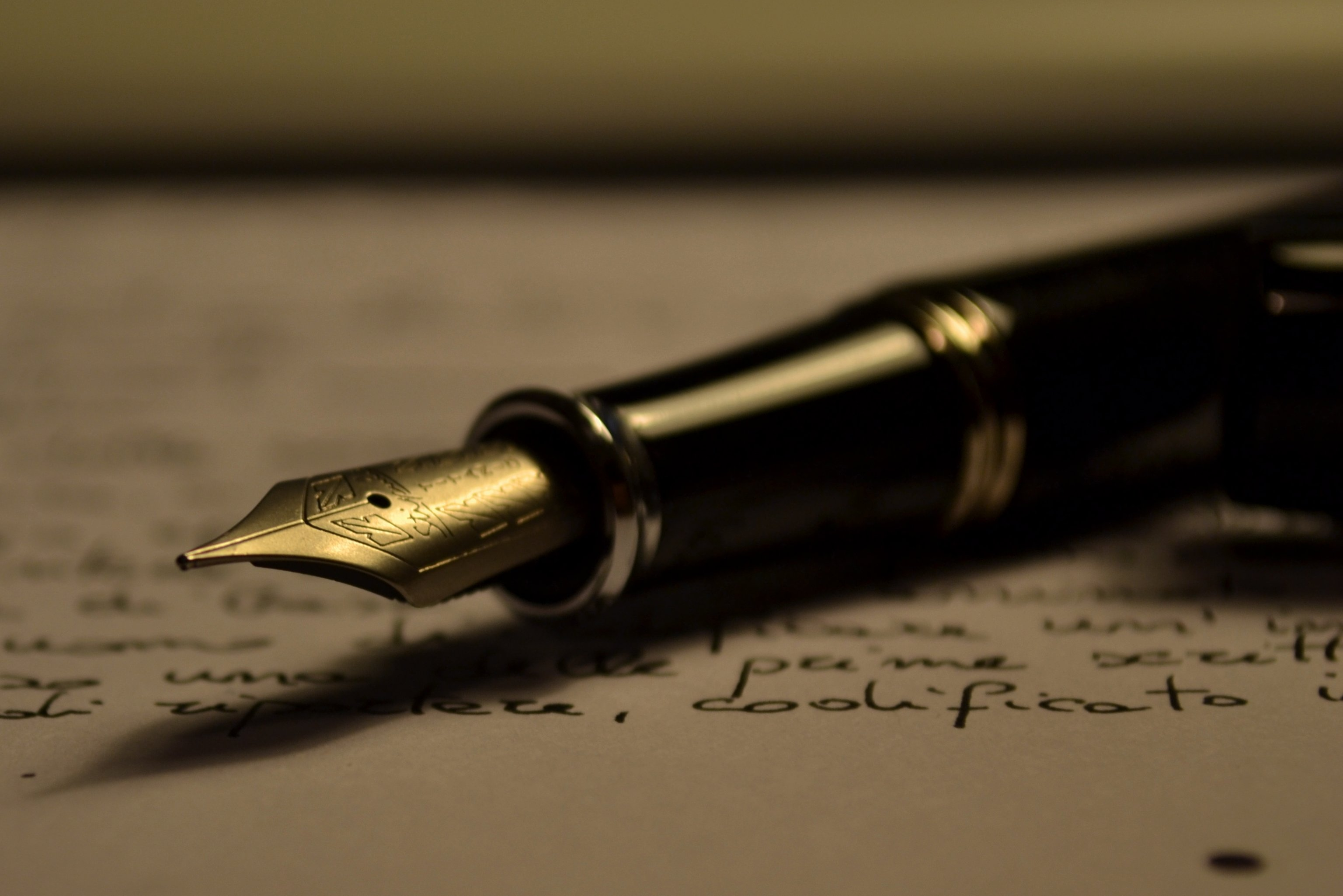 A Stipula fountain pen lying on a written piece of paper